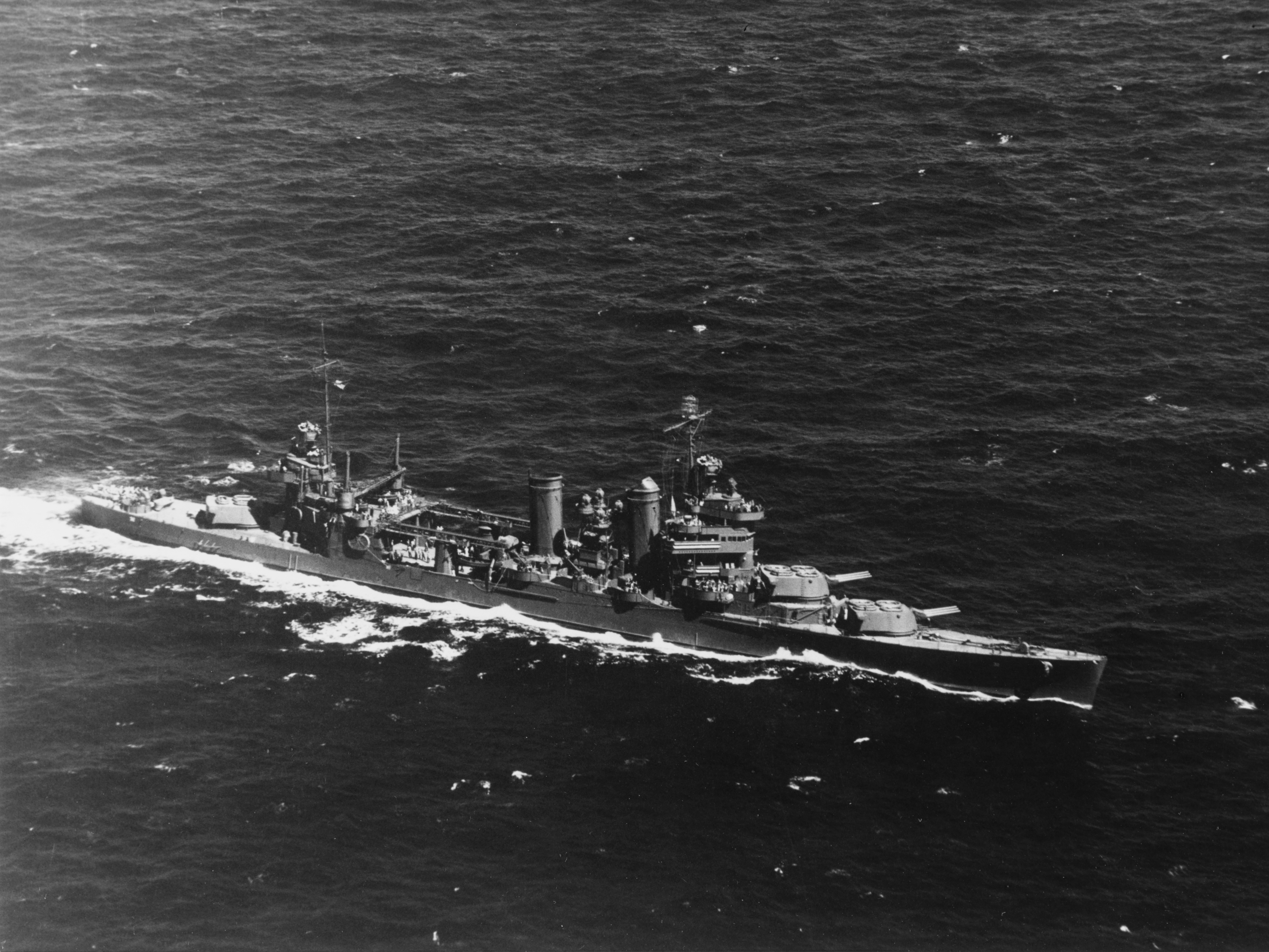 The U.S. Navy heavy cruiser USS New Orleans (CA-32) underway during exercises off Hawaii, 8 July 1942.